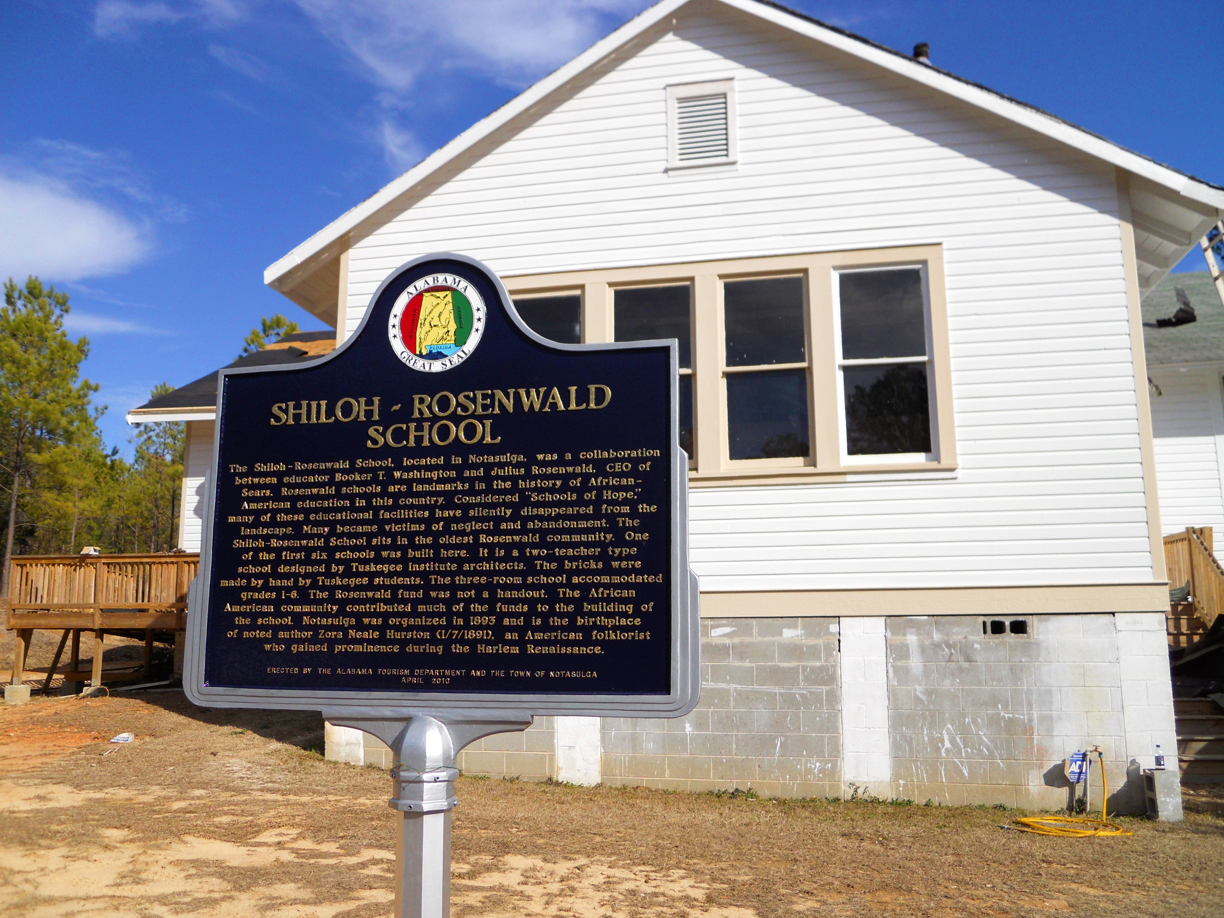 This is a photograph of the Rosenwald school in Notasulga, Alabama. It is located at the Shiloh Missionary Baptist Church and Rosenwald School site which is listed on the National Register of Historic Places.